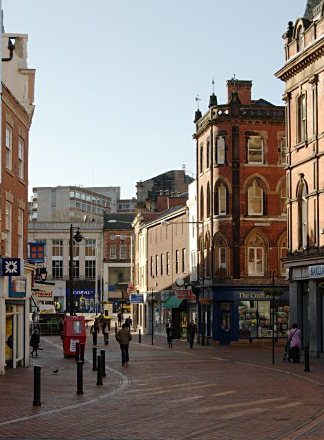 Corn Market, Derby, home of the Derby Philosophical Society in 1783